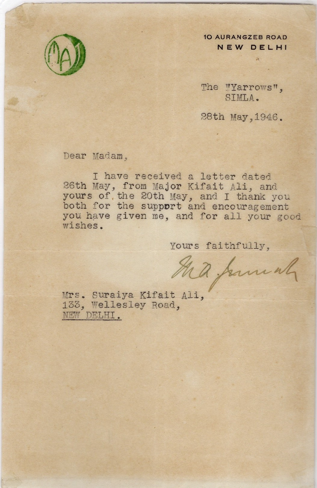 Simlpy a historical lettert